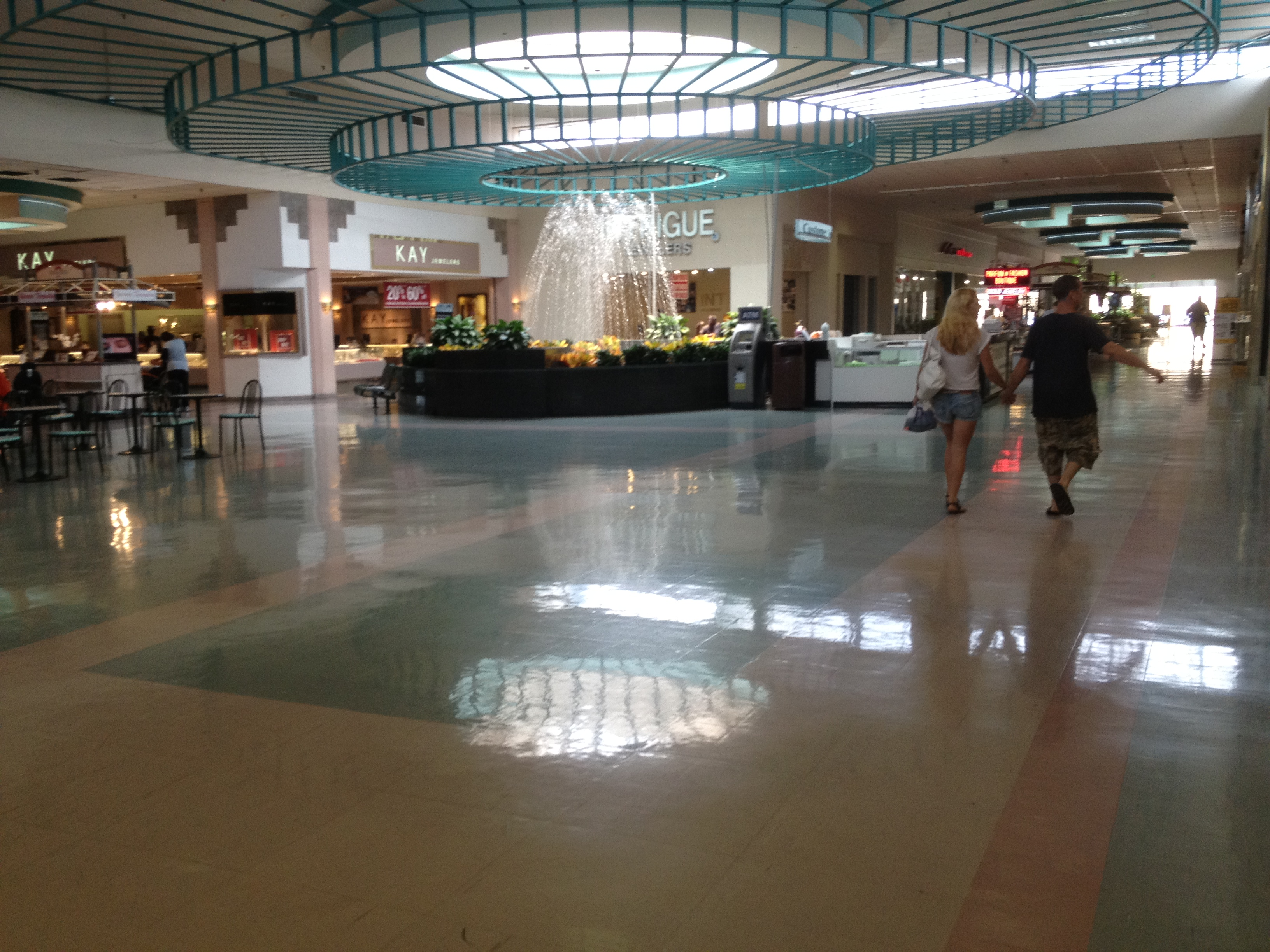 It does have a nice fountain. Couldnt get a better shot as a cop + 2 mall employees were right there.